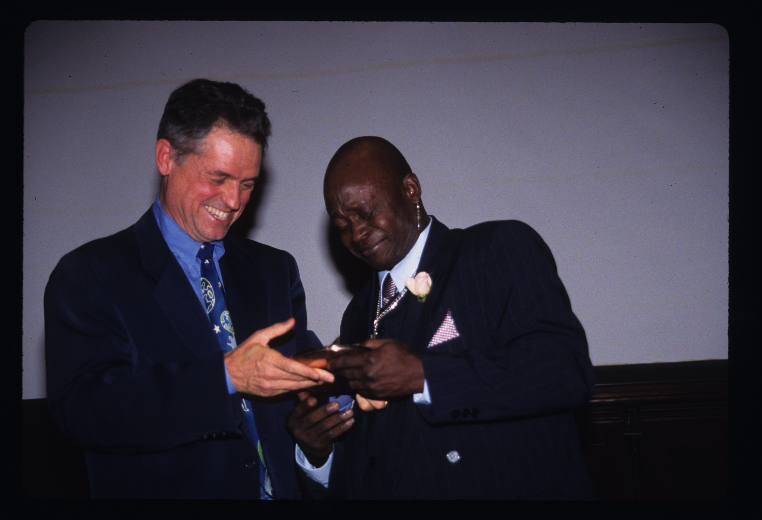 This photograph shows filmmaker Jonathan Demme (left) presenting Master Drummer Frisner Augustin with an award from the cultural center City Lore at its People's Hall of Fame award ceremony in Manhattan, November 19, 1998.